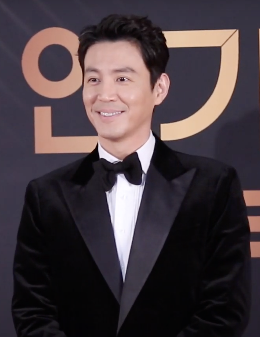 South Korean actor Choi Won-young appeared on the red carpet at the 2019 KBS Drama Awards on December 31, 2019 in Seoul.